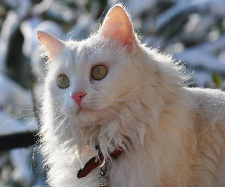 Beautiful Turkish Angora Cat